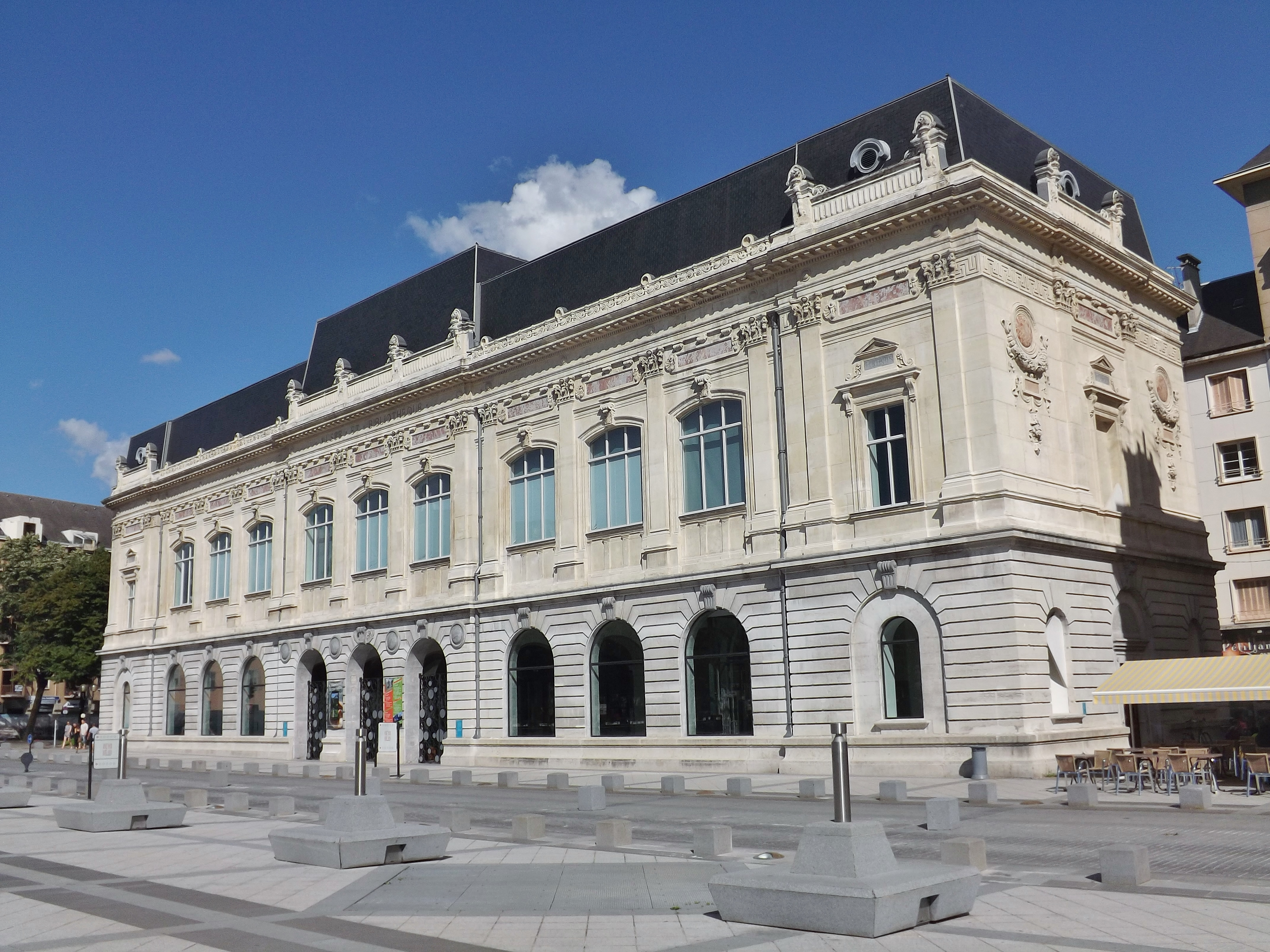 Sight of the Musée des Beaux-Arts de Chambéry fine arts museum, in Chambéry, Savoie, France.